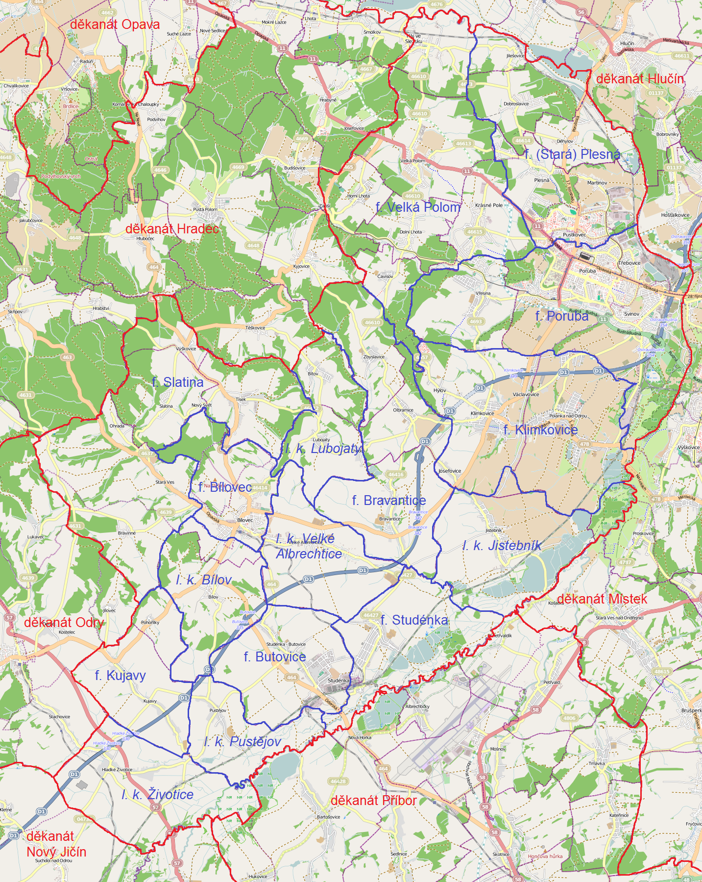 Bílovec Deanery with parish boundaries (1859). This map of Bílovec, Ostravský kraj, Czech Republic was created from OpenStreetMap project data, collected by the community. This map may be incomplete, and may contain errors. Don't rely solely on it for navigation.